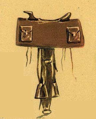 Illustration (detail) found on a Pony Express map (file Pony Express Map William Henry Jackson.jpg), showing mochilla saddled used by Express riders.